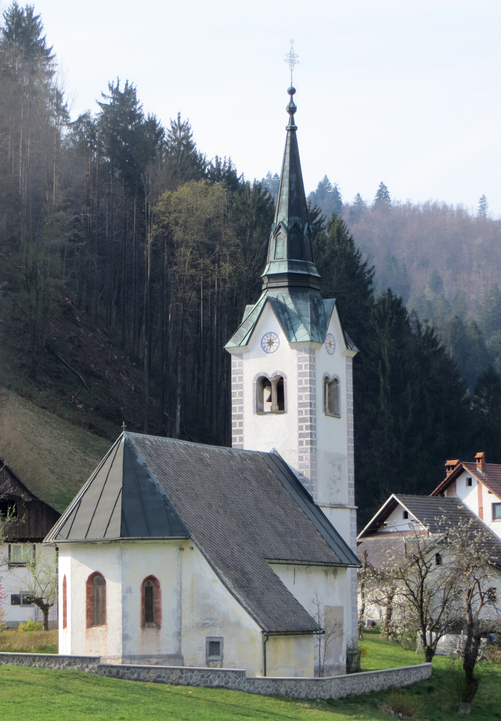 Saint Peter's Church in Bodovlje, Municipality of Škofja Loka, Slovenia